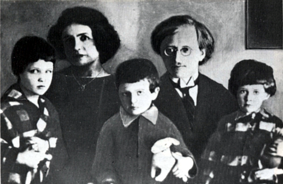 Vladimir Antonov-Ovseyenko together with his wife Rozhena and sons Vera, Anton and Galina, Prague, 1925